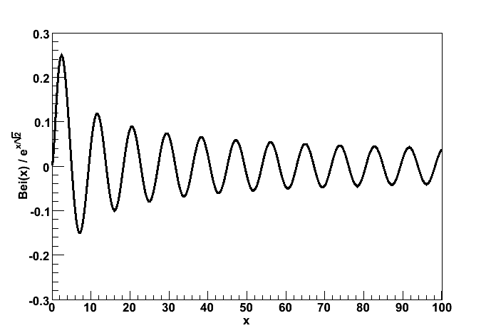 A plot of B e i ( x ) / e x / 2 {\displaystyle \mathrm {Bei} (x)/e^{x/{\sqrt {2 between 0 and 100.